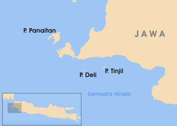 Map of southern Banten province, Indonesia